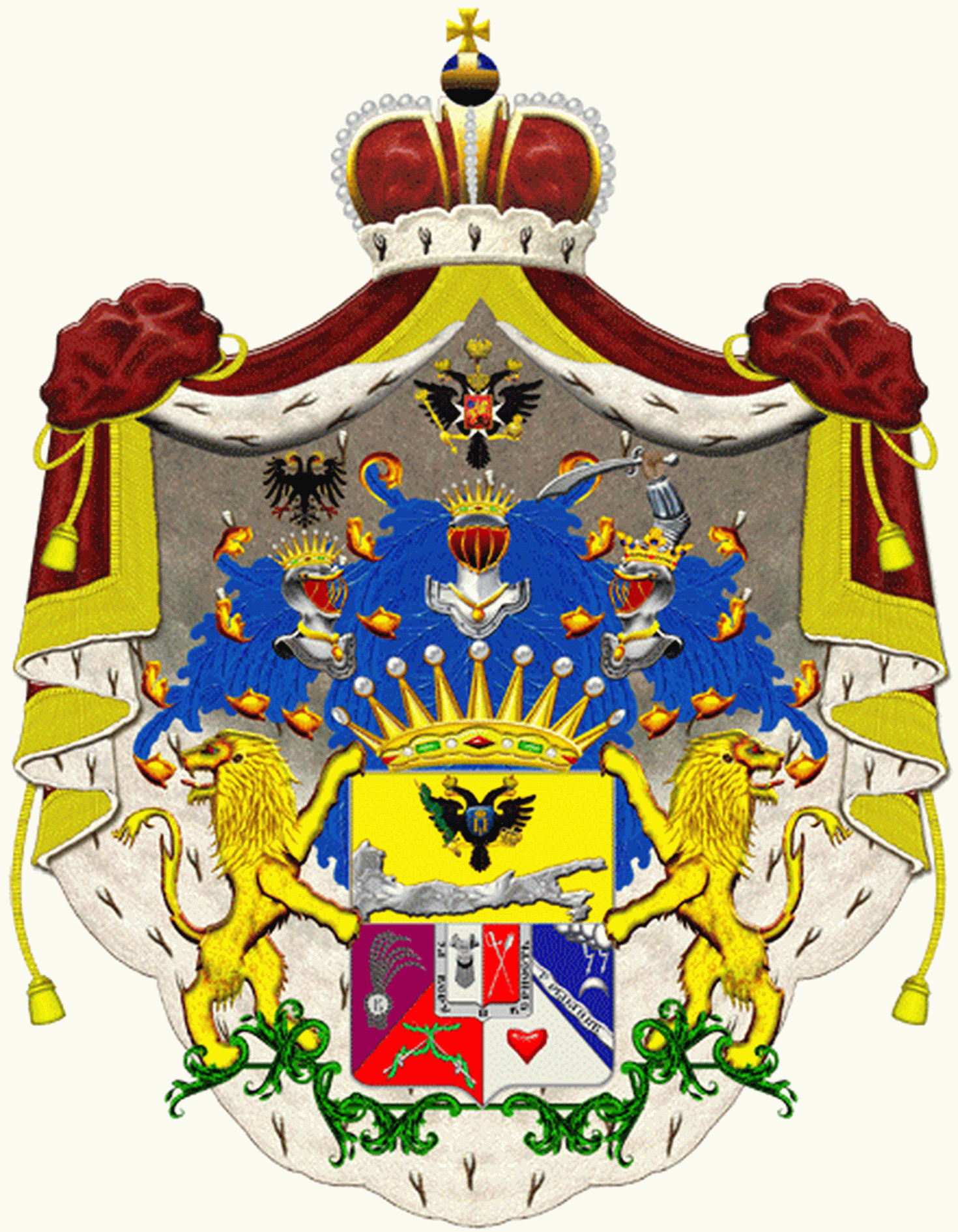 Coat of arms of Alexander Suvorov-Rimnikski, Prince of Italy